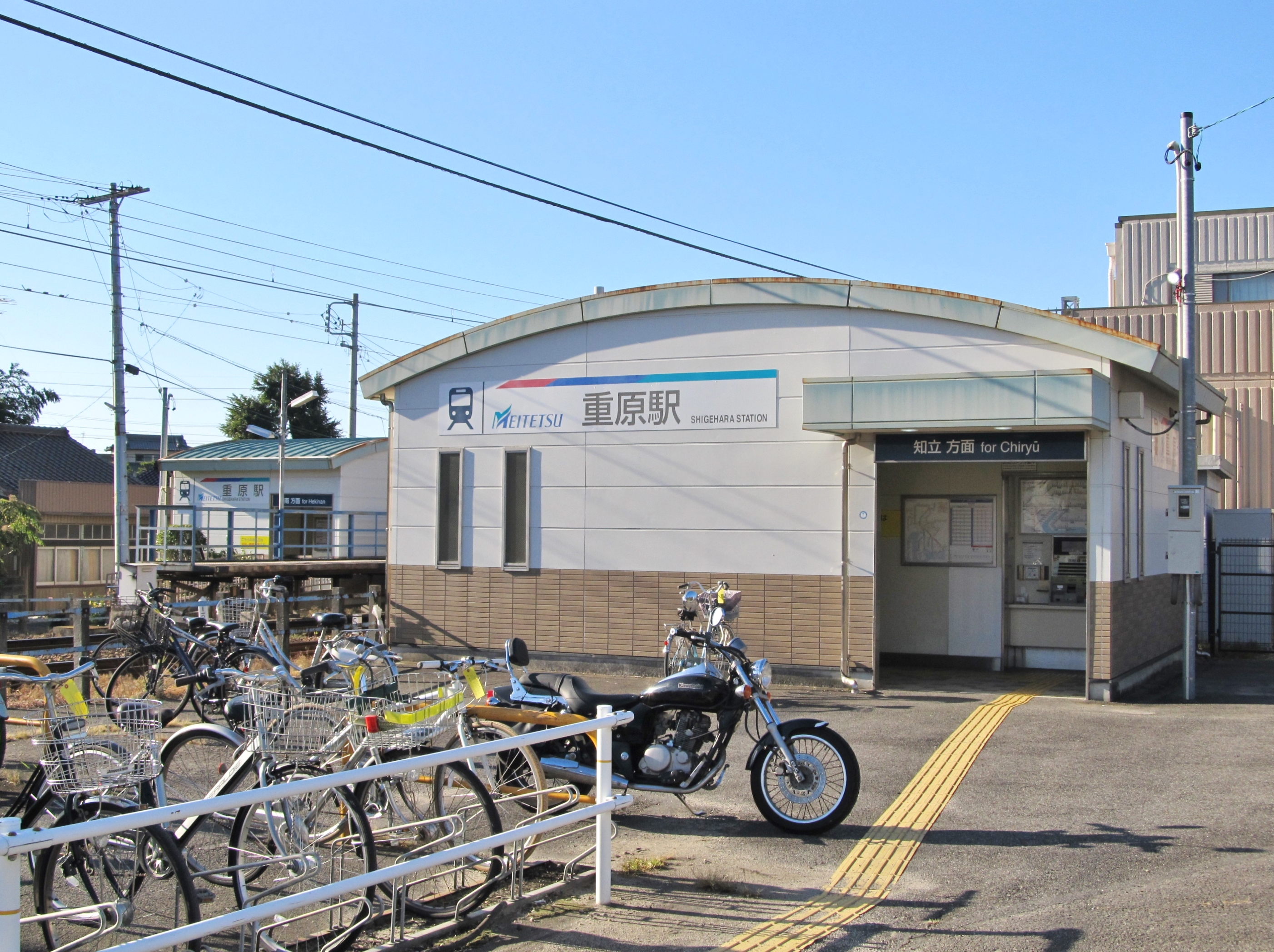 Nagoya Railroad Mikawa Line Shigehara Station Building (for Chiryū)